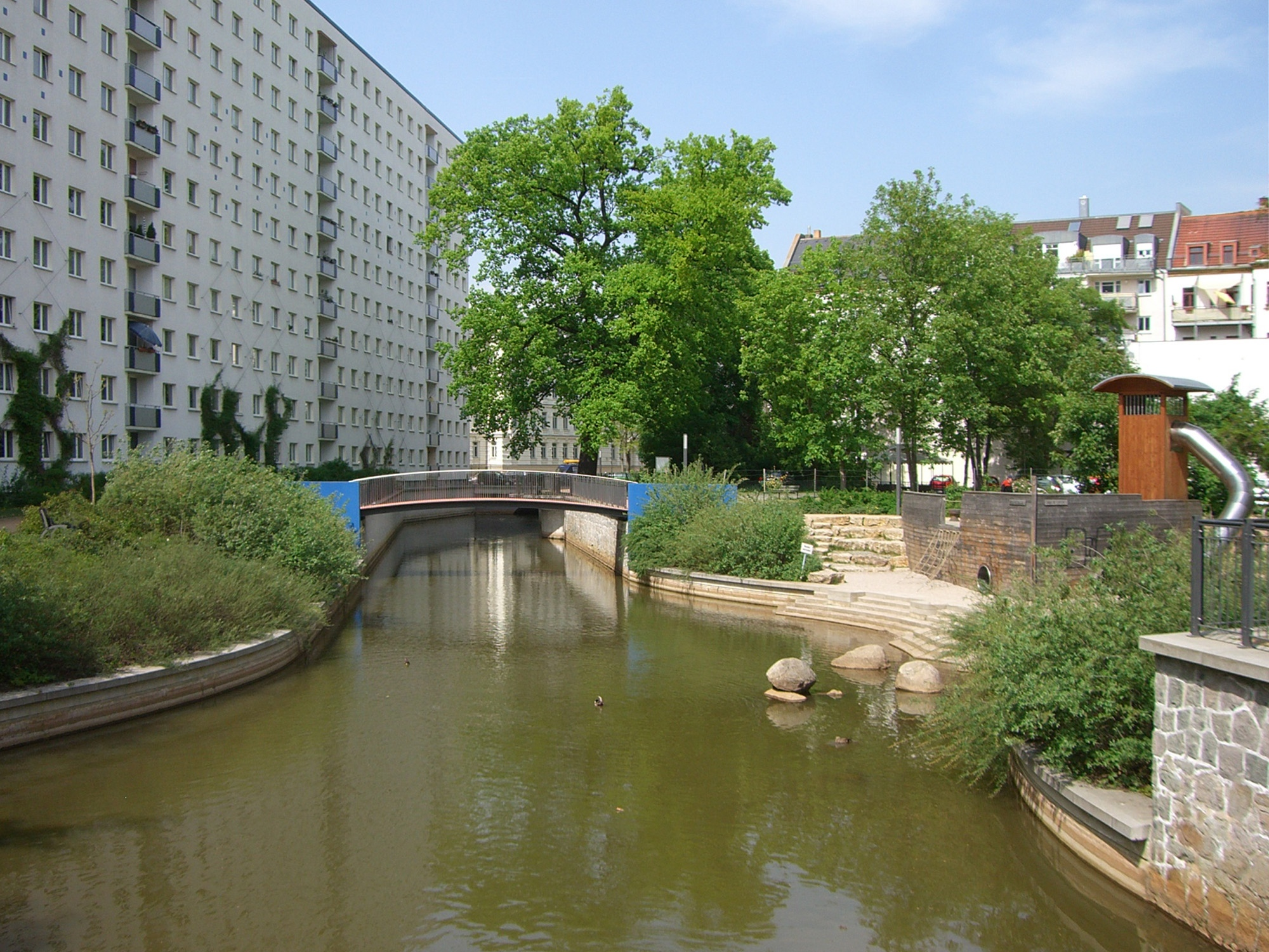 Leipzig: Exposed Pleisse millrace at the spit bridge